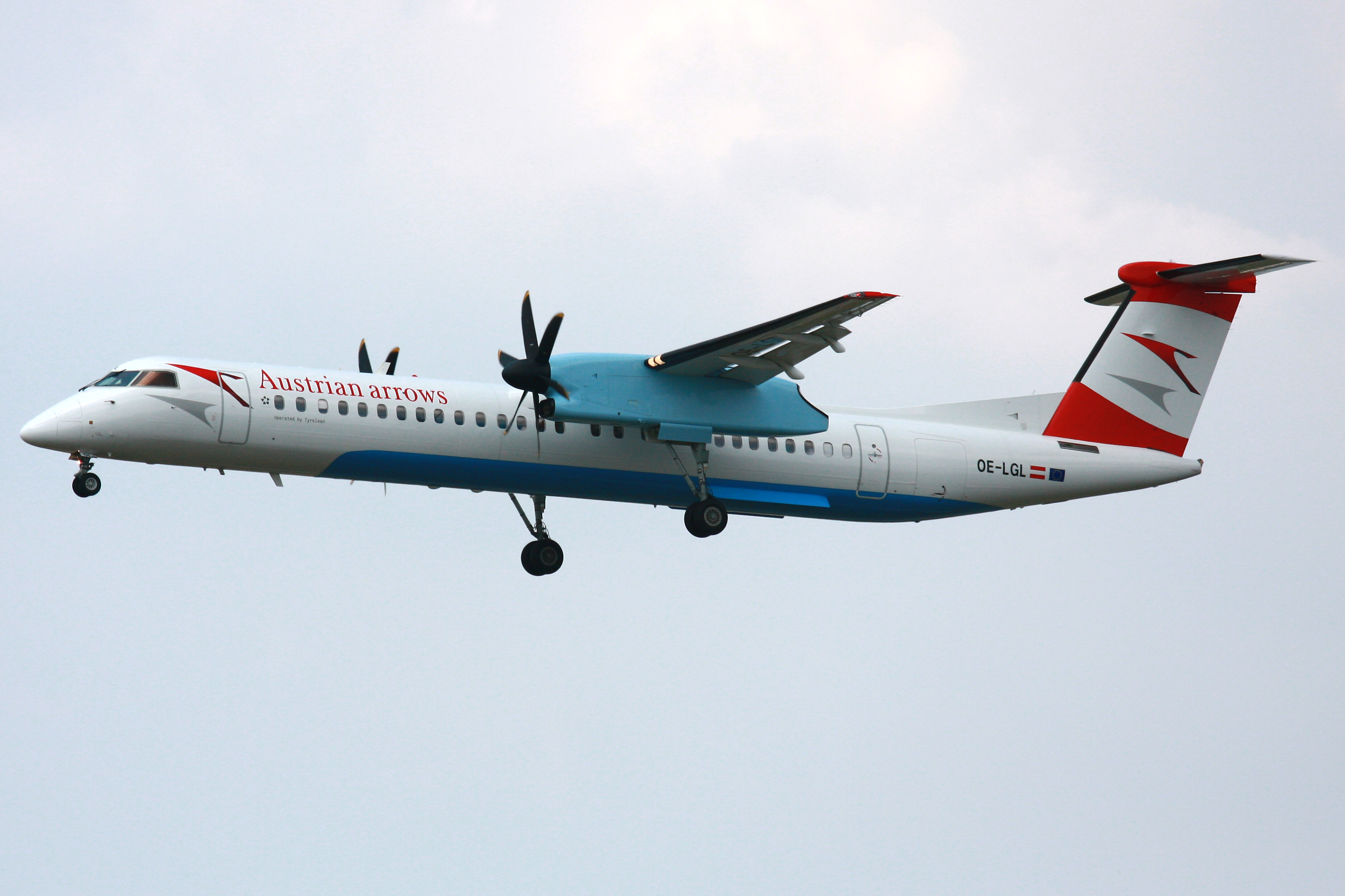 A Dash 8-Q400 of Austrian Arrows landing at Frankfurt Airport Other photographs in this sequence : File:2010-06-30 Dash8 AustrianArrows OE-LGL EDDF 01.jpg File:2010-06-30 Dash8 AustrianArrows OE-LGL EDDF 03.jpg